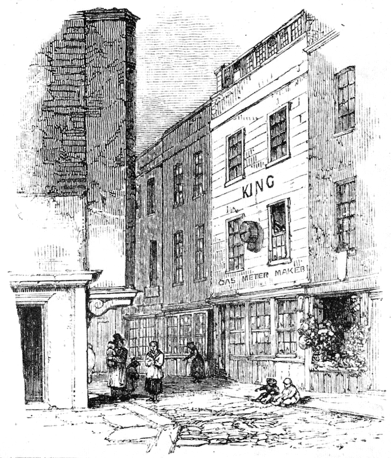 Cock Lane as seen in MEMOIRS OF EXTRAORDINARY POPULAR DELUSIONS AND THE Madness of Crowds, 1852